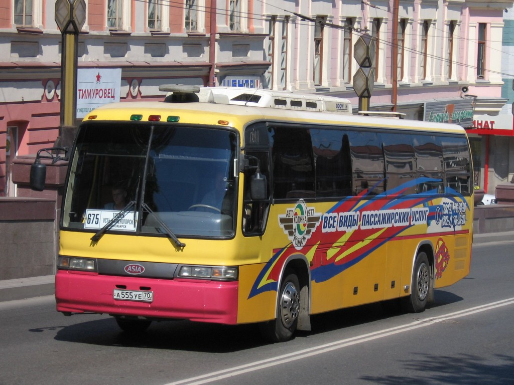 Asia Granbird bus in Tomsk, Russia